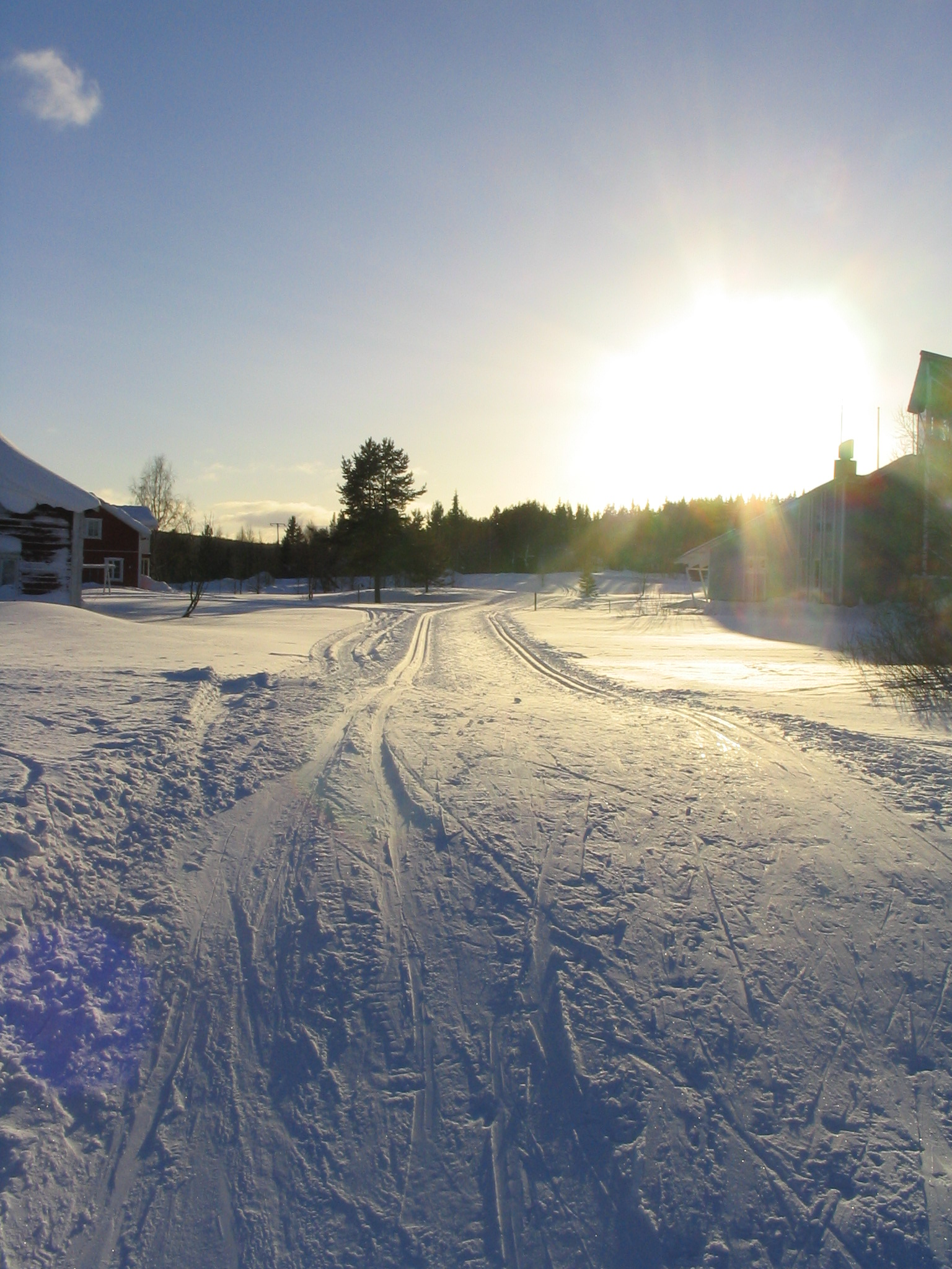 A ski track in Äkäslompolo, Kolari, Finland